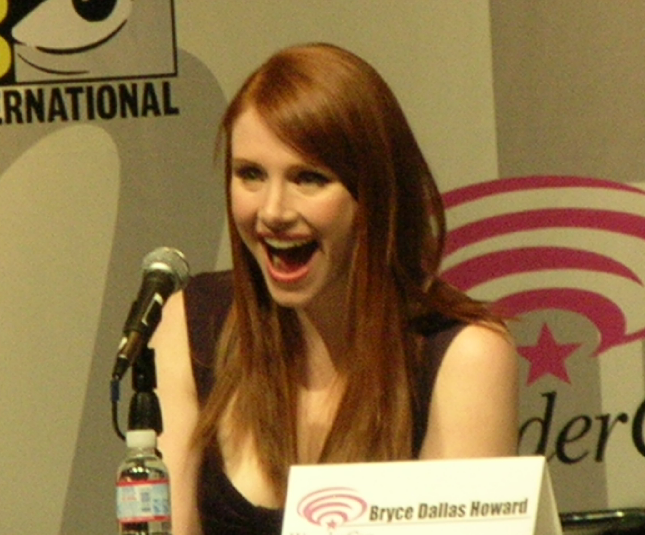 Bryce Dallas Howard reacts to a comment while participating in a Terminator Salvation panel discussion at WonderCon 2009.